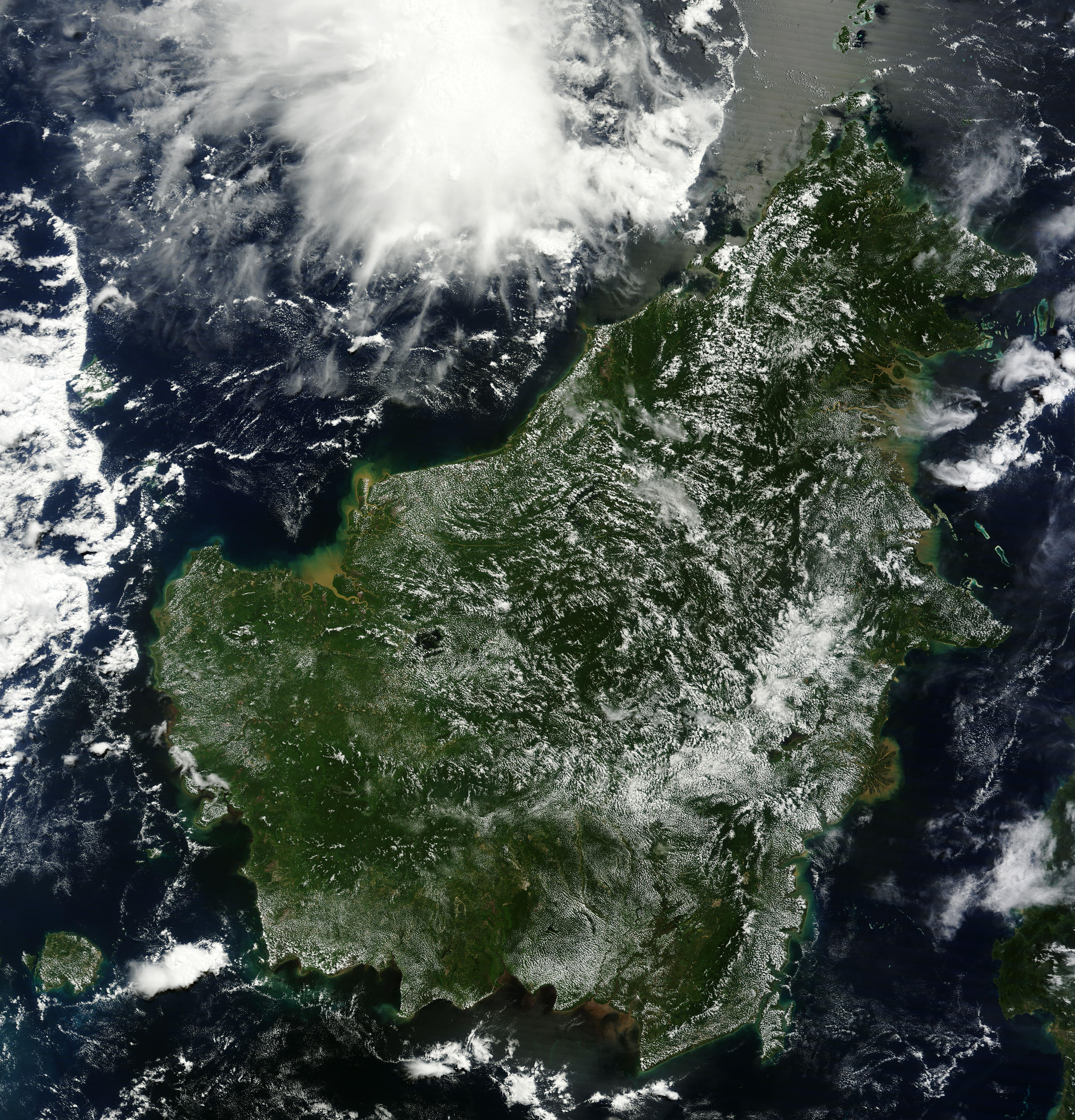 Borneo seen from Space as taken by the NASA terra satellite